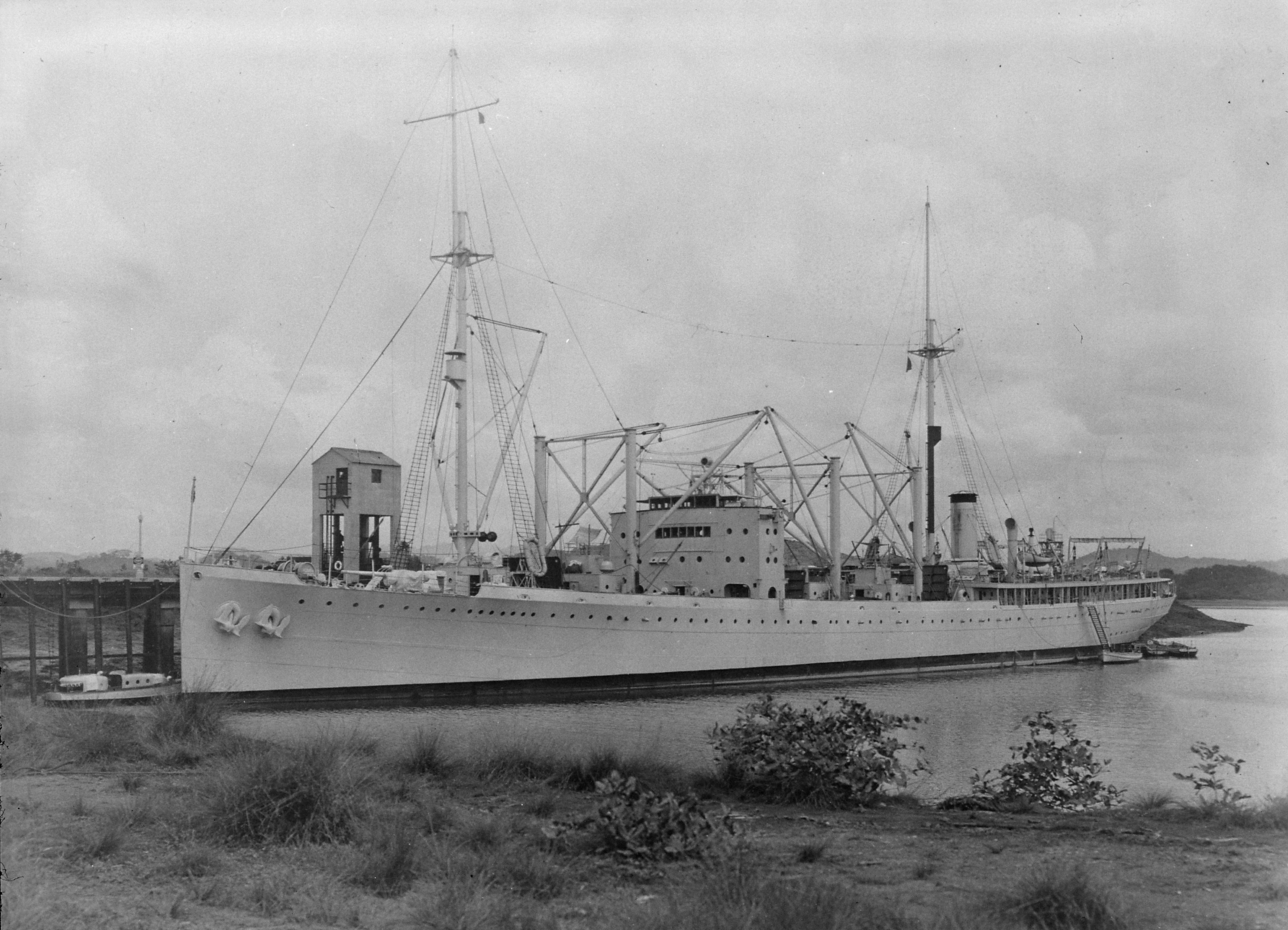 The U.S. Navy ammunition ship USS Nitro (AE-2) at Balboa, Panama Canal Zone, in 1938.